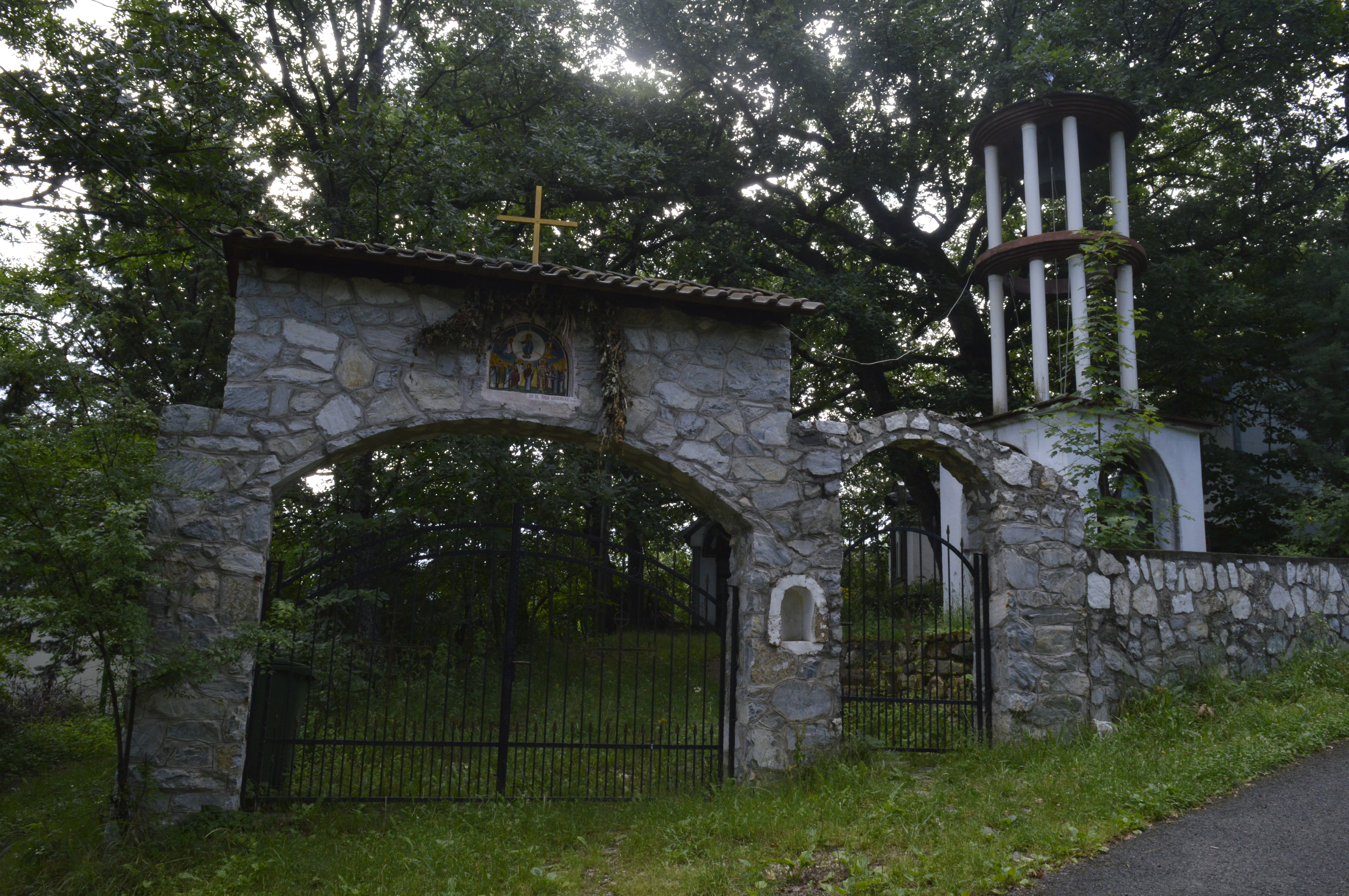 Entry of the Church of the Ascension of Jesus in the village Bogomila